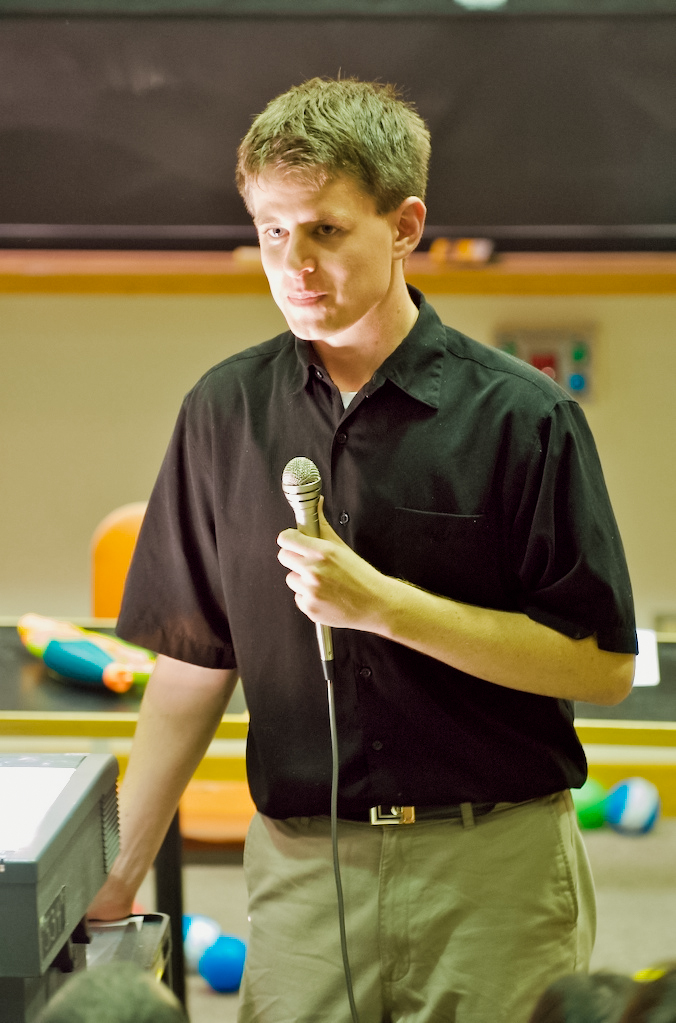 Randall Munroe, creator of the webcomic xkcd, speaks at MIT room 10-250